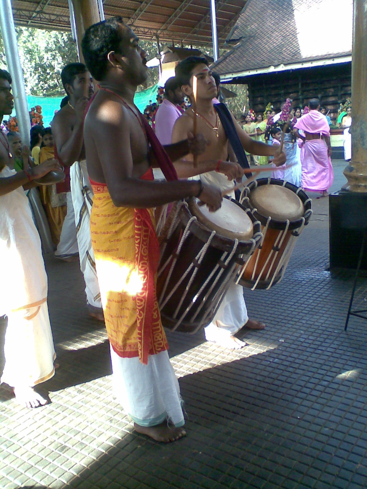 Chenda